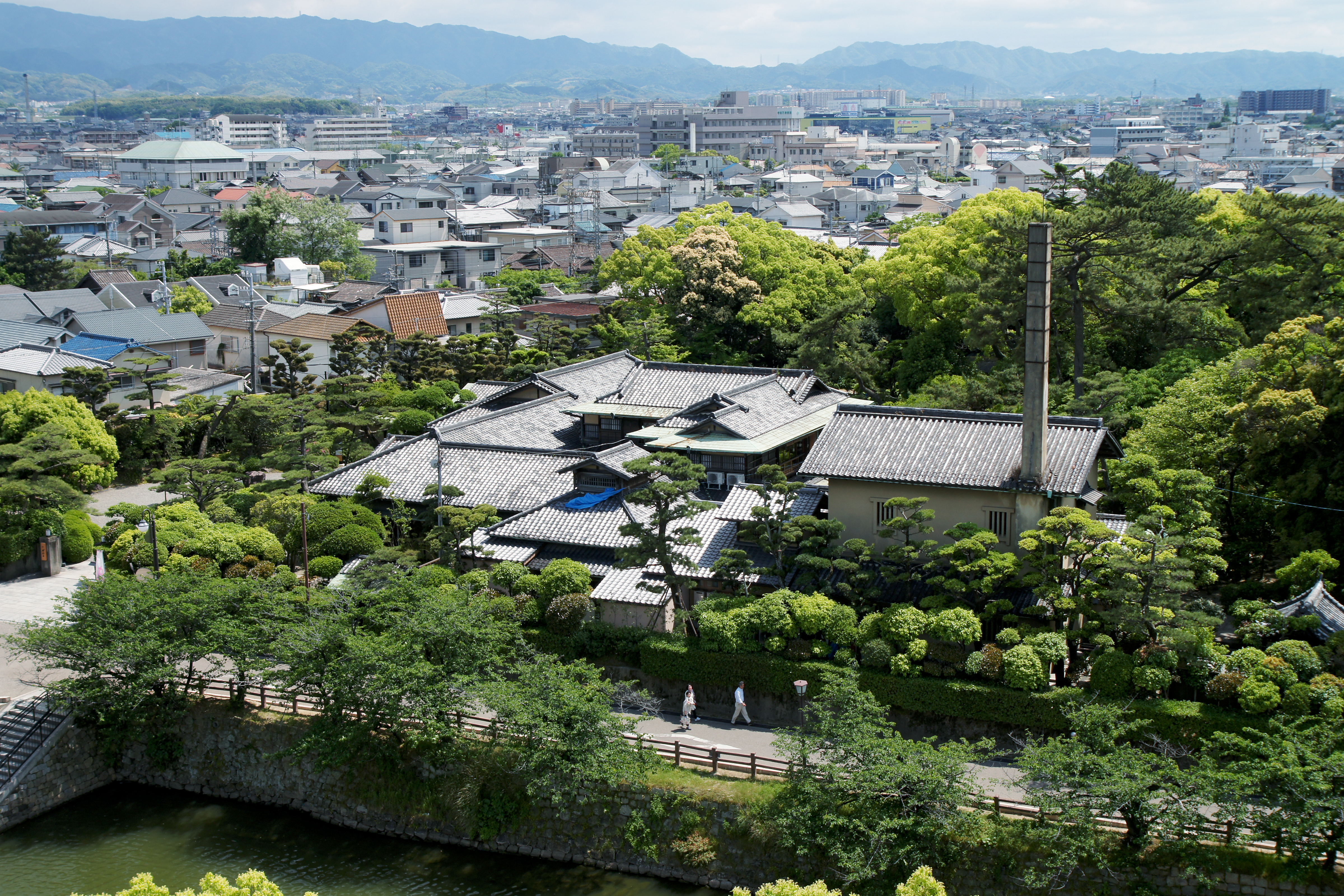 Gofuso in Kishiwada, Osaka prefecture, Japan